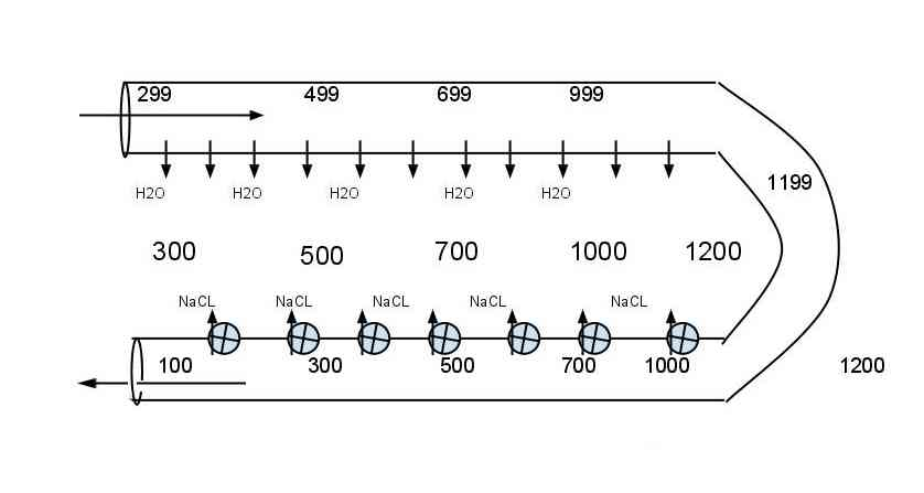 Counter current multiplier explained, Loop of Henle